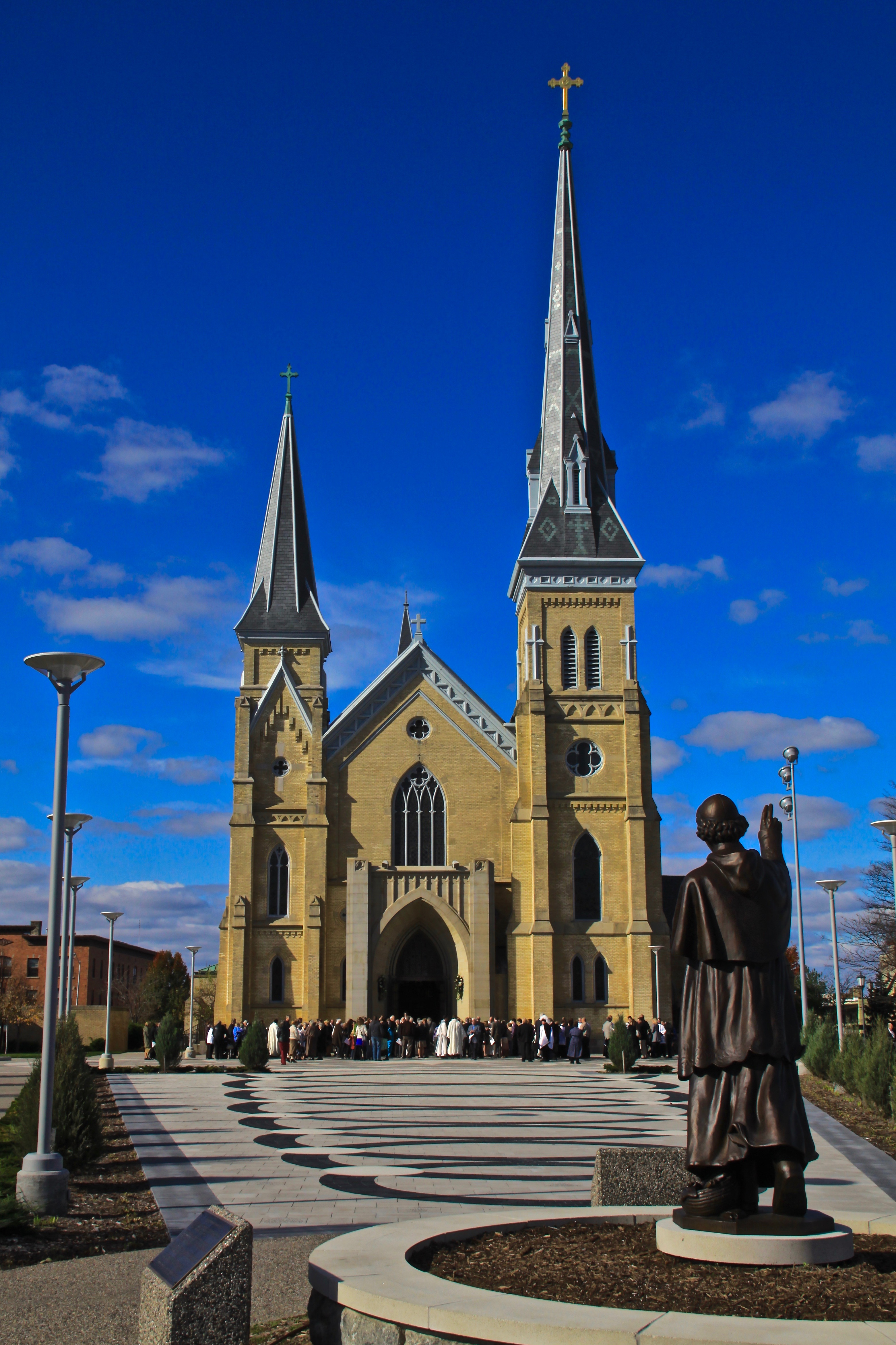 St. Andrews